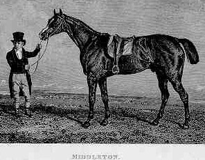 Engraving of Derby winner Middleton. Circa 1825, unknown artist.